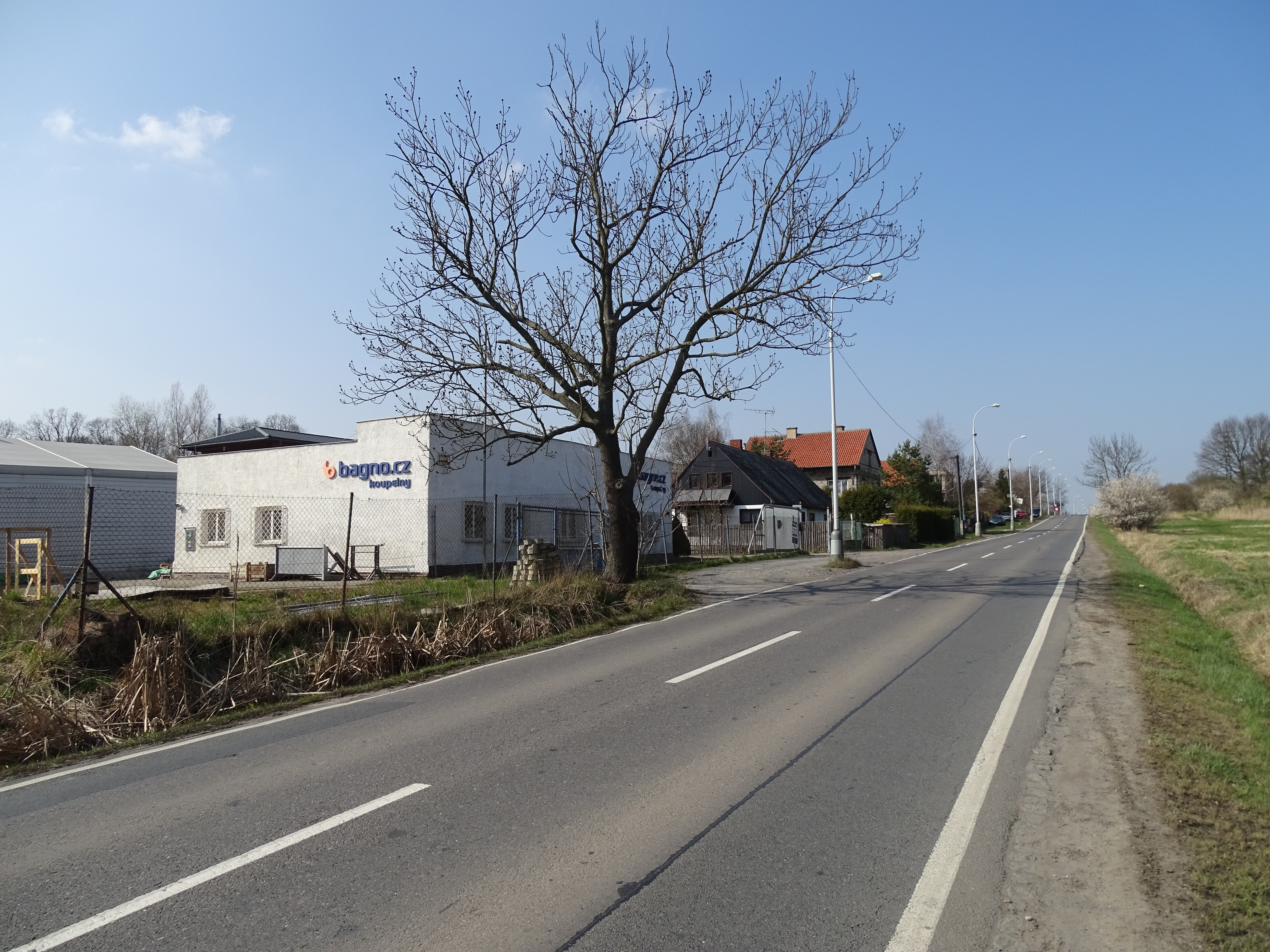 Prague-Horní Počernice, Czech Republic. Xaverov, Ve Žlíbku 1621/104.